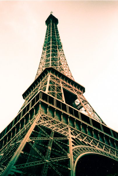 Picture of the Eiffel tour in Paris, taken by a Lomo LC-A